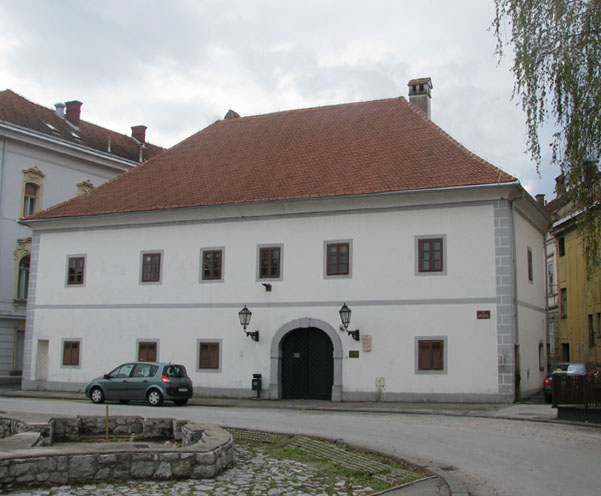 Town Museum in Karlovac, Croatia